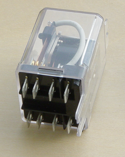 General purpose relay, 60 hz 110 volt coil, DPDT contacts 25A at 300V AC. Magenecraft 389ACX-9. 3PDT will have an additional row of three contacts in the center, Magnecraft 389ACX-15. This type is of package is called an "ice cube" relay in reference to its transparent enclosure and size. The transparency allows inspection of the contacts, coil, and swing arms for evidence of overheating.